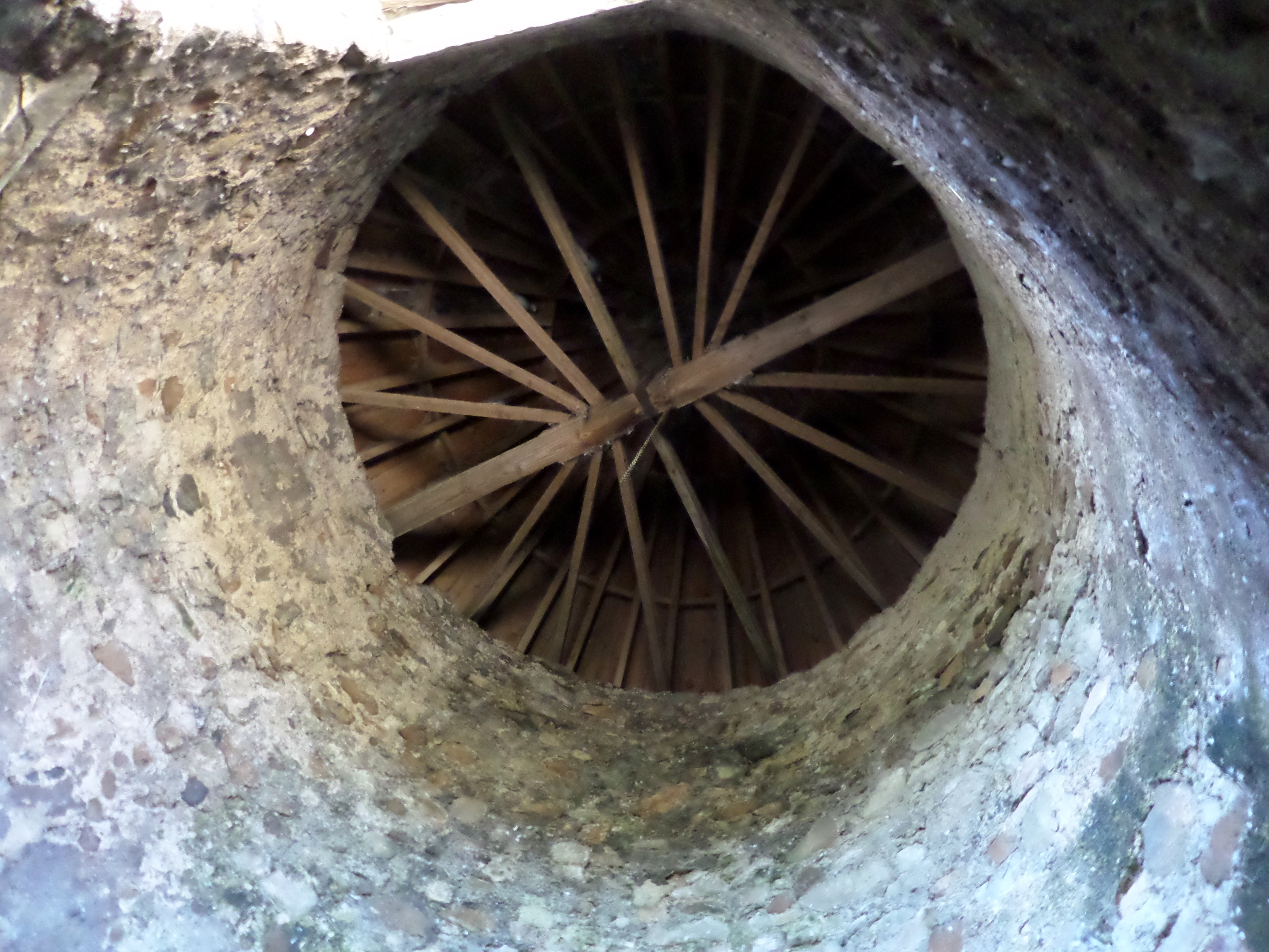 Monkton Vaulted Tower Windmill, South Ayrshire, Scotland. View of the roof added when it became a dovecote in the 19th century.